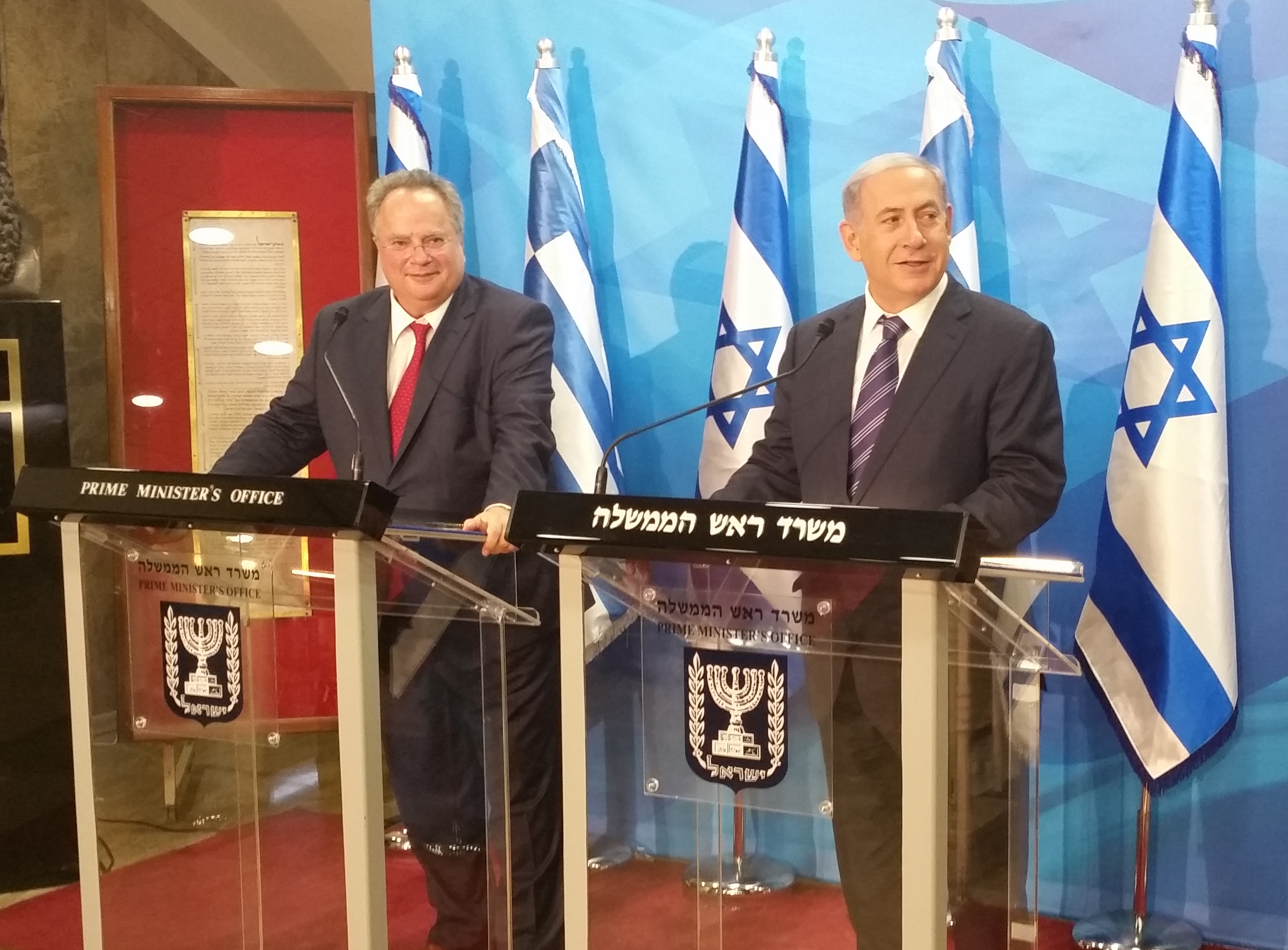 Greek FM Nikos Kotzias at a press conference with Israeli PM Benjamin Netanyahu on 6 July 2015.